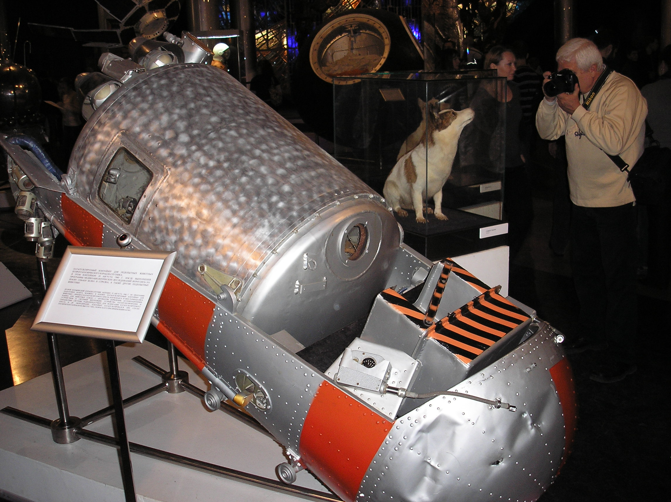 Space capsule of Sputnik-5 in Space Museum